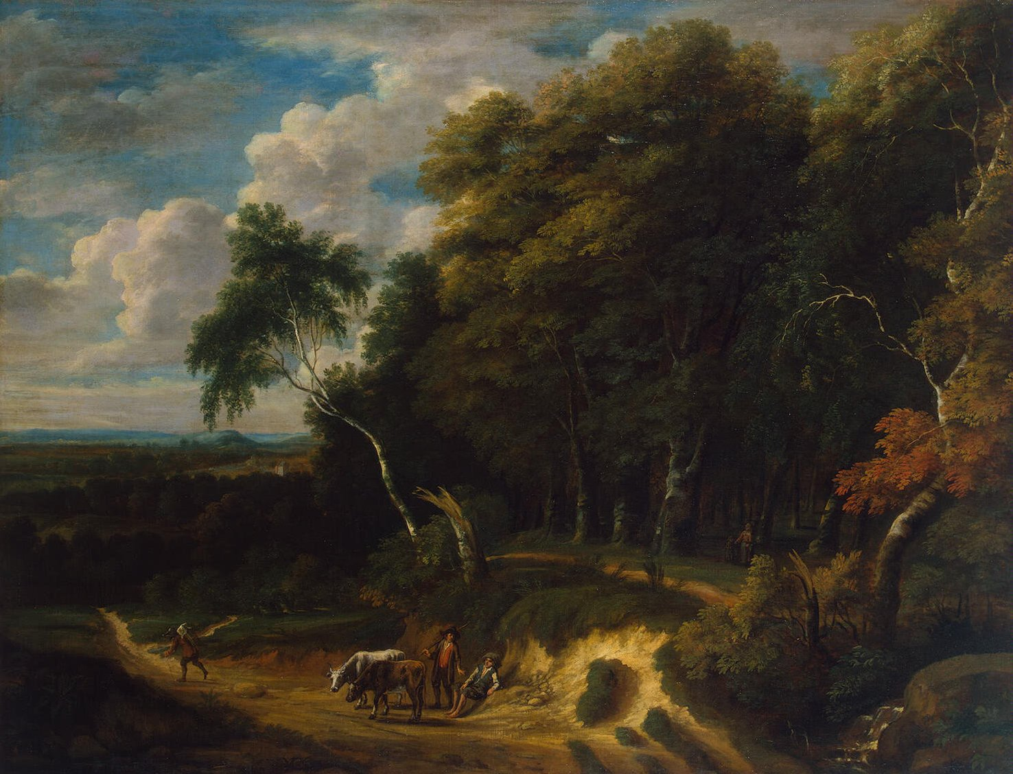 Landscape with a Herd